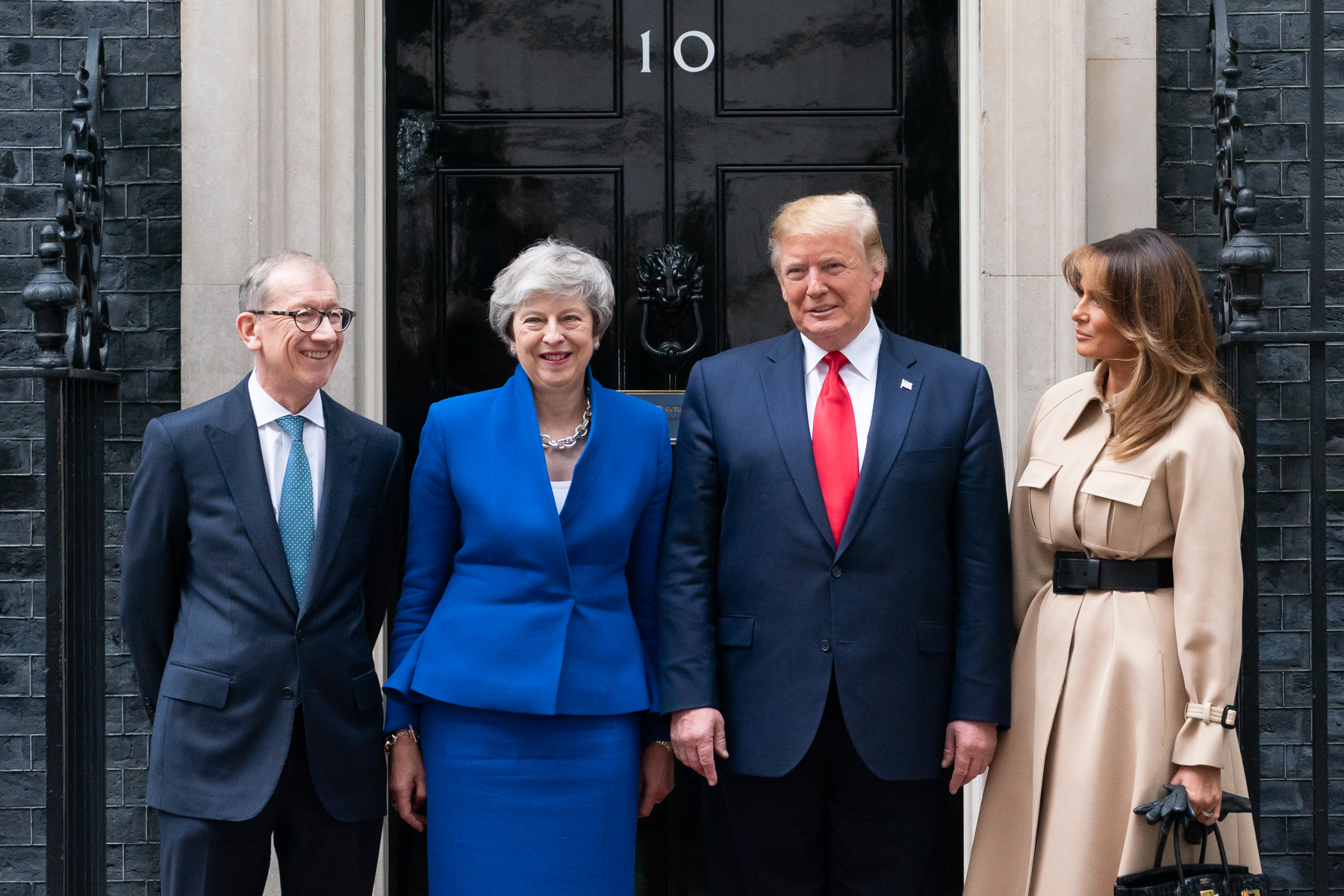 President Donald J. Trump and First Lady Melania Trump pose for a photo with British Prime Minister Theresa May and her husband Mr. Philip May Tuesday, June 4, 2019, at No. 10 Downing Street in London. (Official White House Photo by Andrea Hanks)